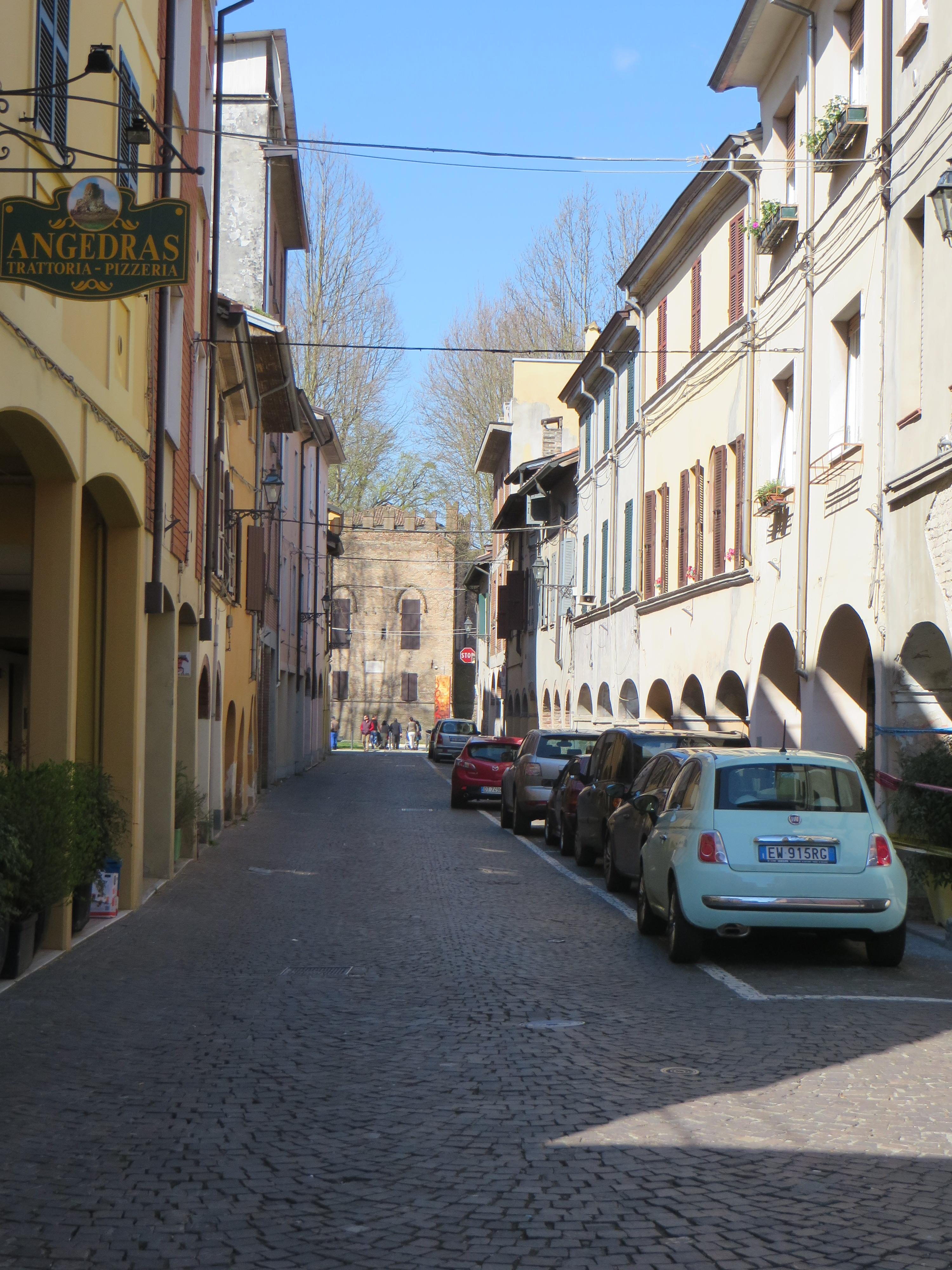 Street